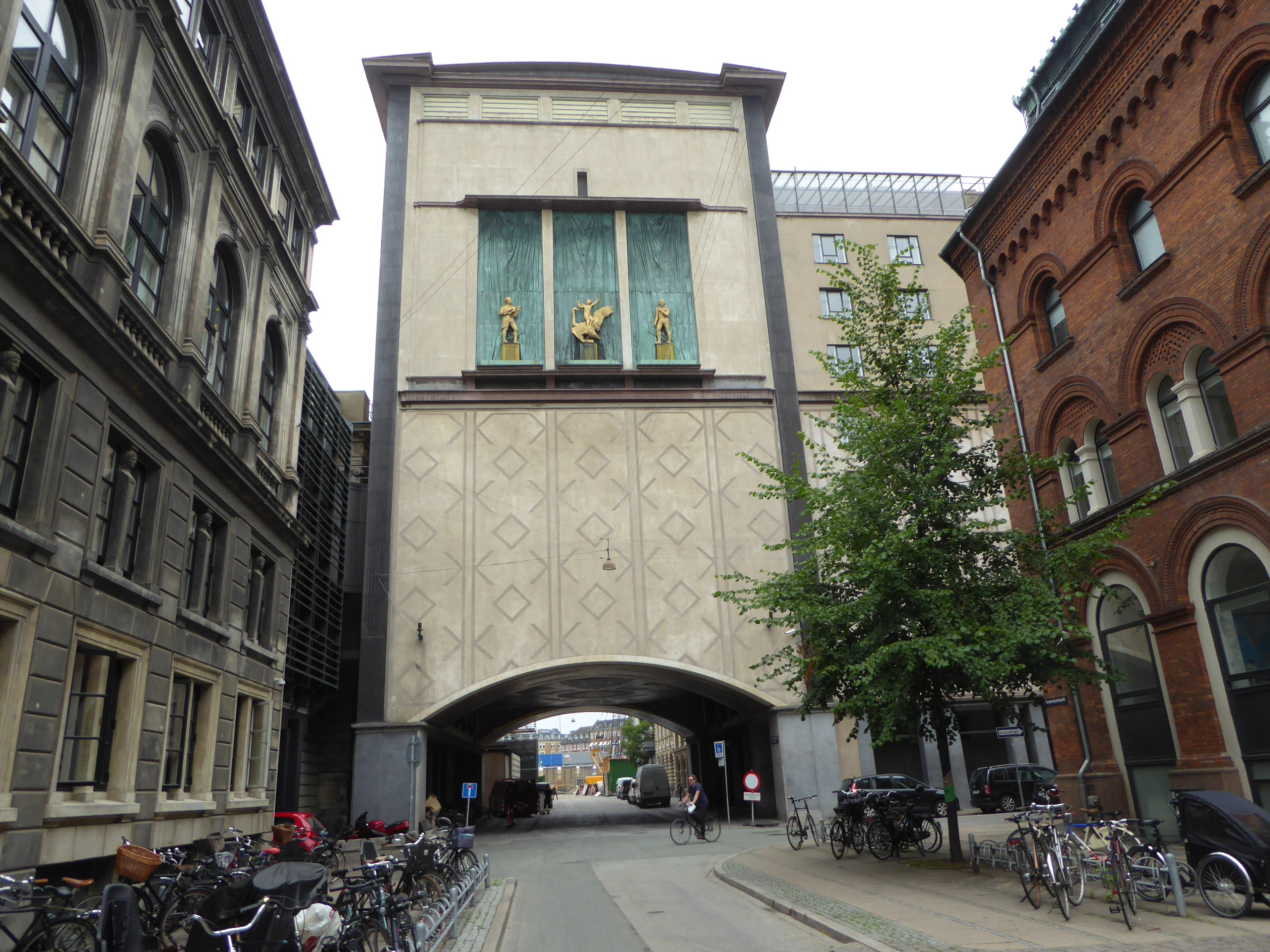 The building Stærekassen, a part of the Royal Danish Theatre, above August Bournonvilles Passage and seen from Tordenskjoldsgade in Indre By in Copenhagen.